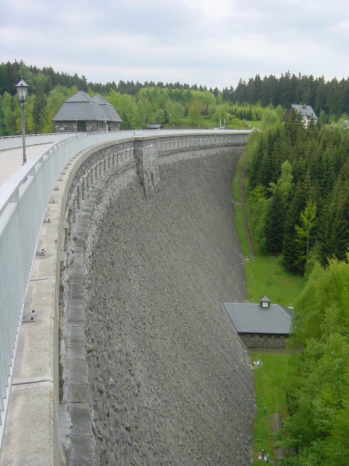 Werda Dam near Bergen, Saxony, Germany